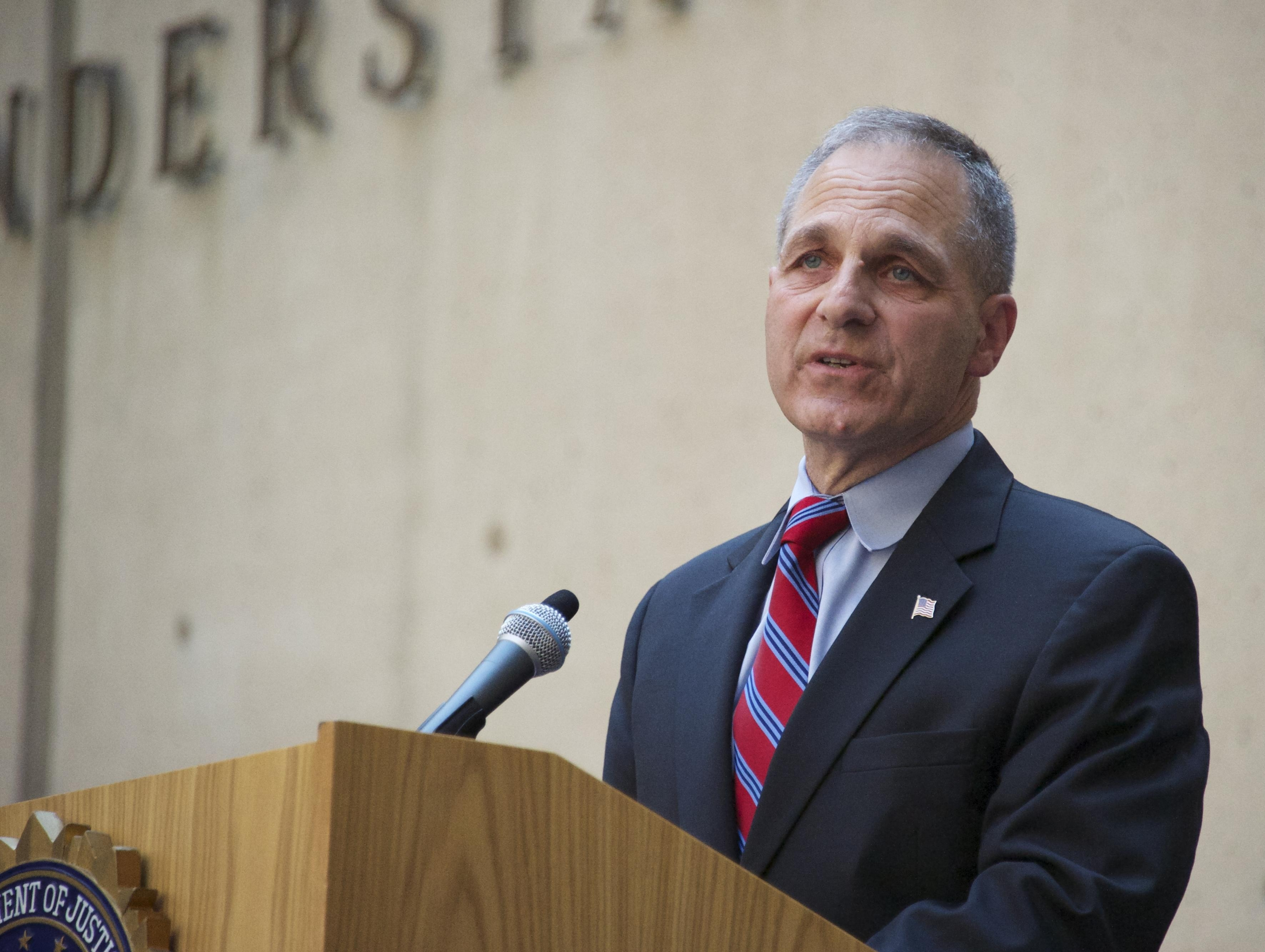 Former Director Louis Freeh speaks at the farewell ceremony honoring outgoing Director Robert S. Mueller, III on August 27, 2013 in the courtyard of FBI Headquarters.